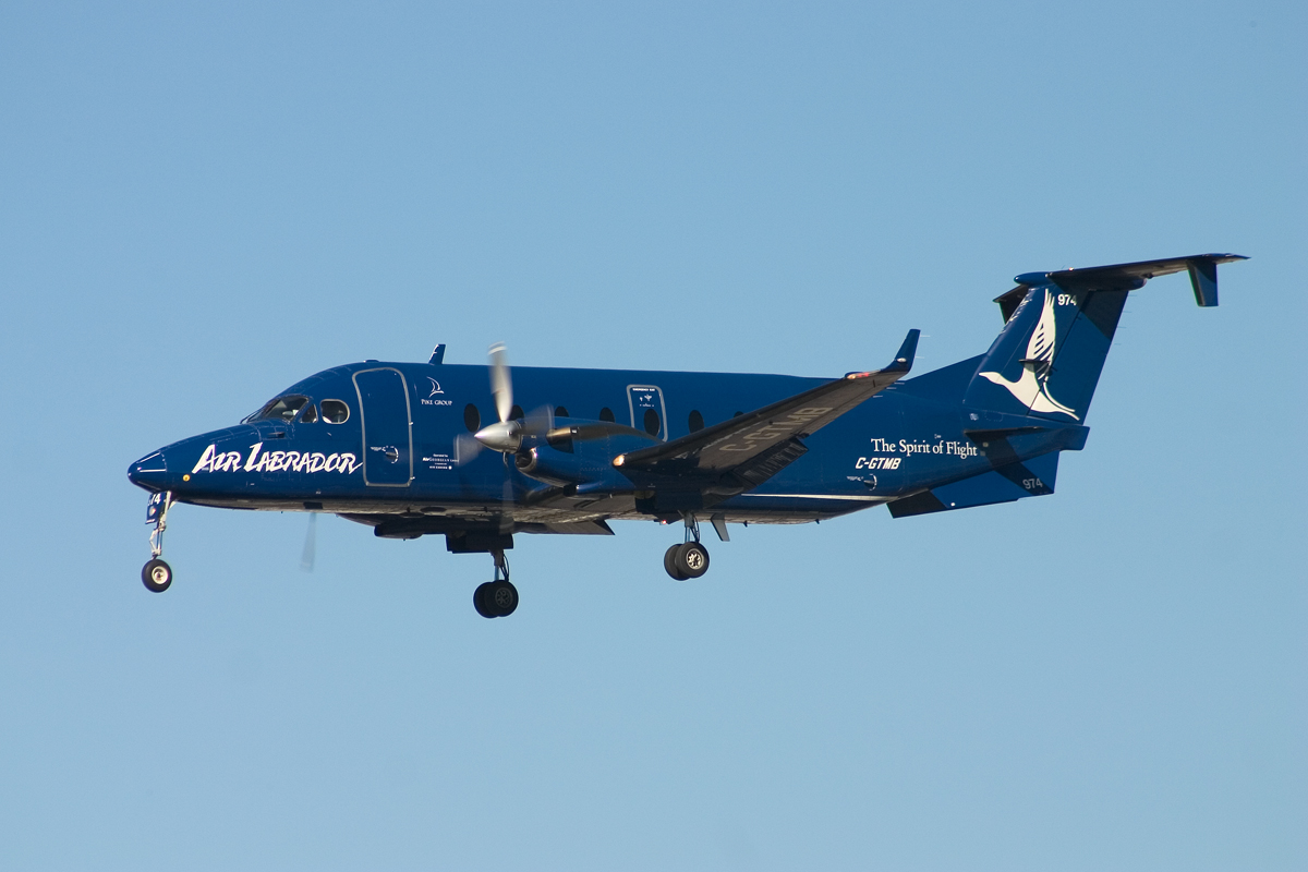 Air Labrador Beech 1900D (C-GTMB)